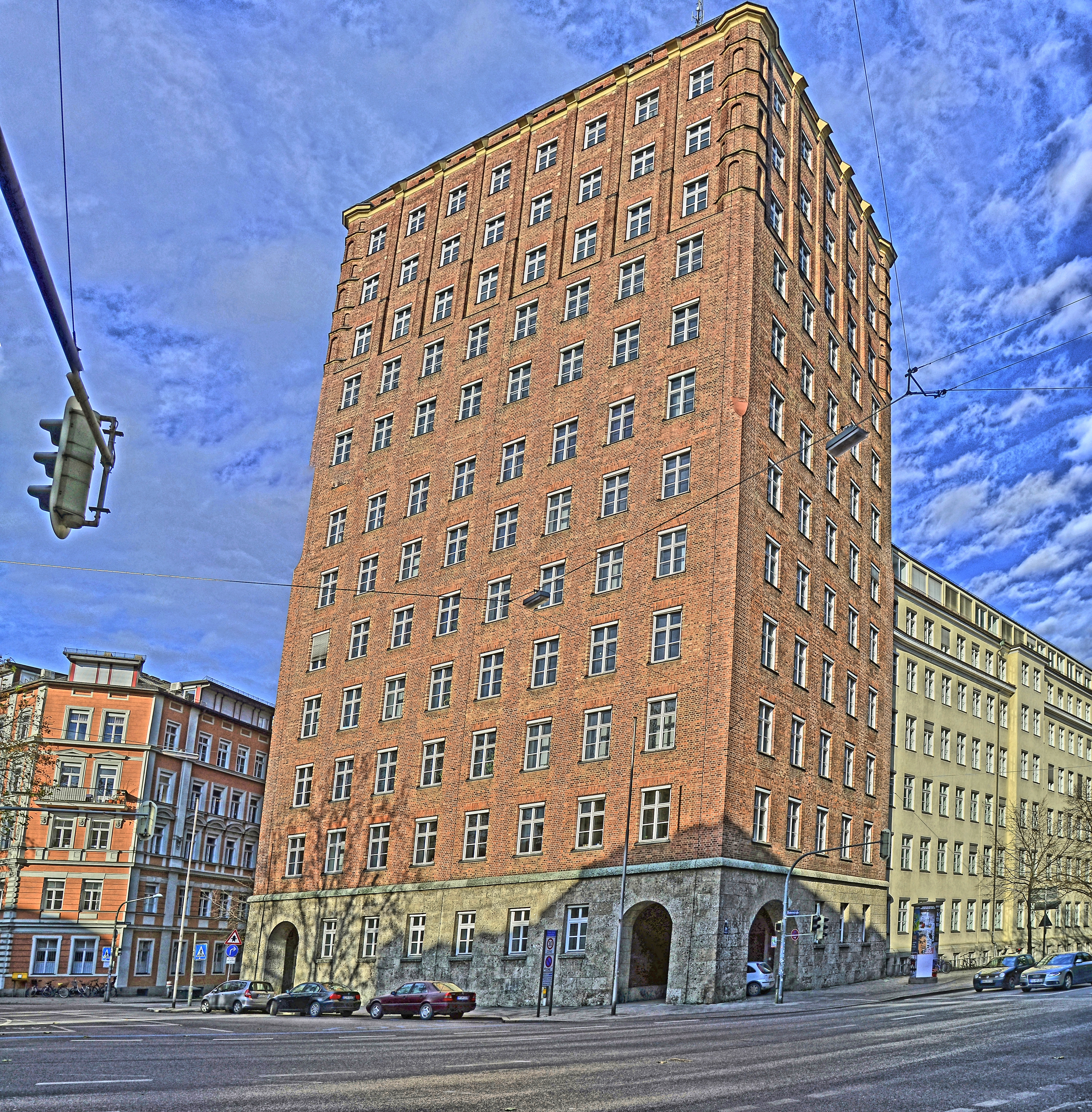 Old Brick House in Munich, Blumenstraße 28b